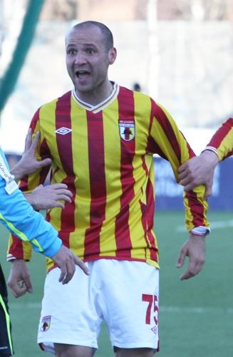 Marat Bikmaev with FC Alania Vladikavkaz in 2012.